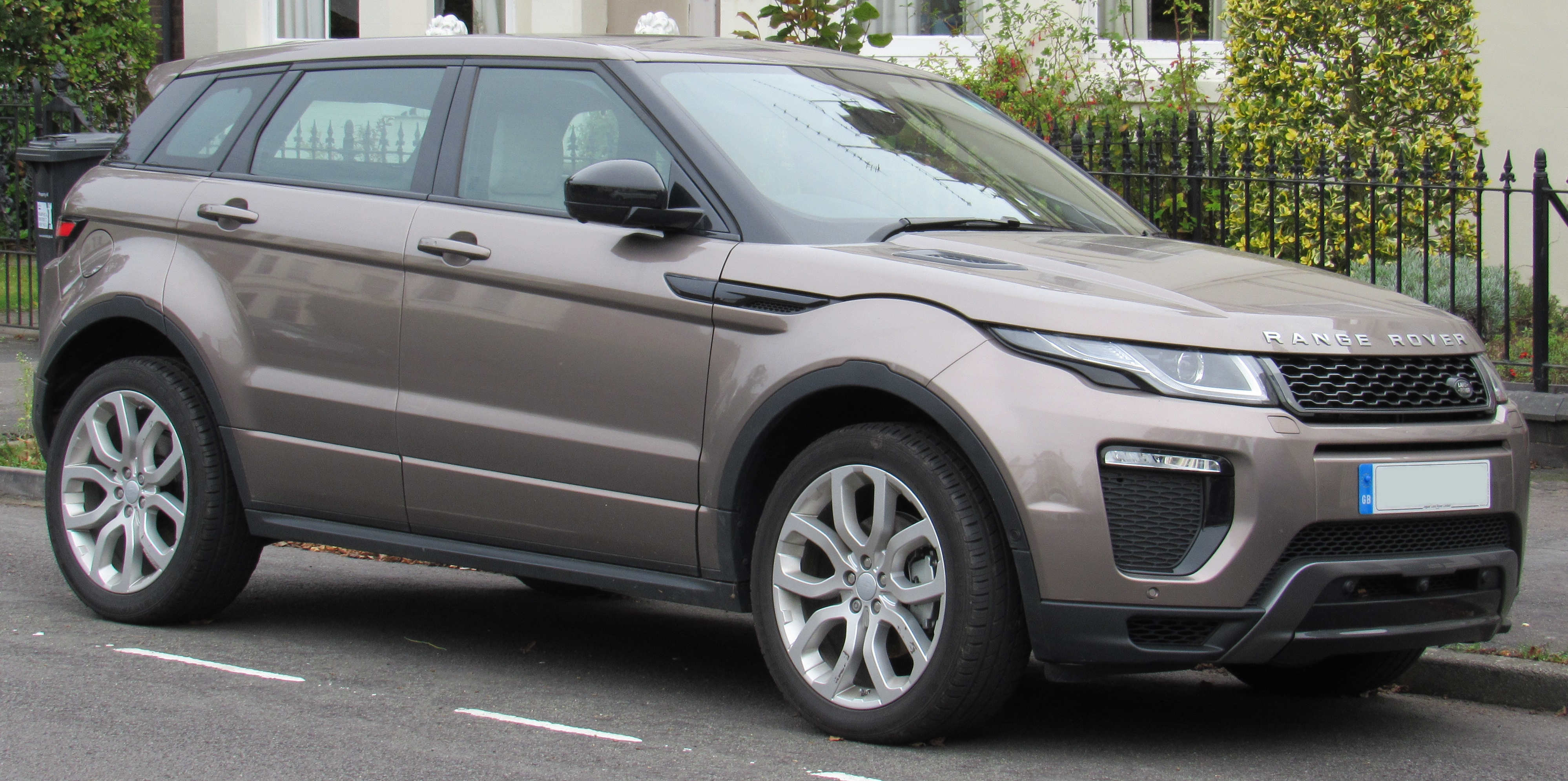 2017 Range Rover Evoque HSE 2.0 Front Taken in Leamington Spa